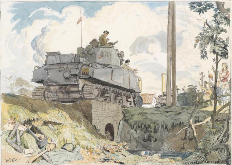 Armoured Fighting Vehicles entering Weert, Belgium image: A Sherman Tank crosses a small stone bridge on entering a Belgian village. The soldiers driving the tank are greeted by a civilian woman and children, who wave from the side of the road.